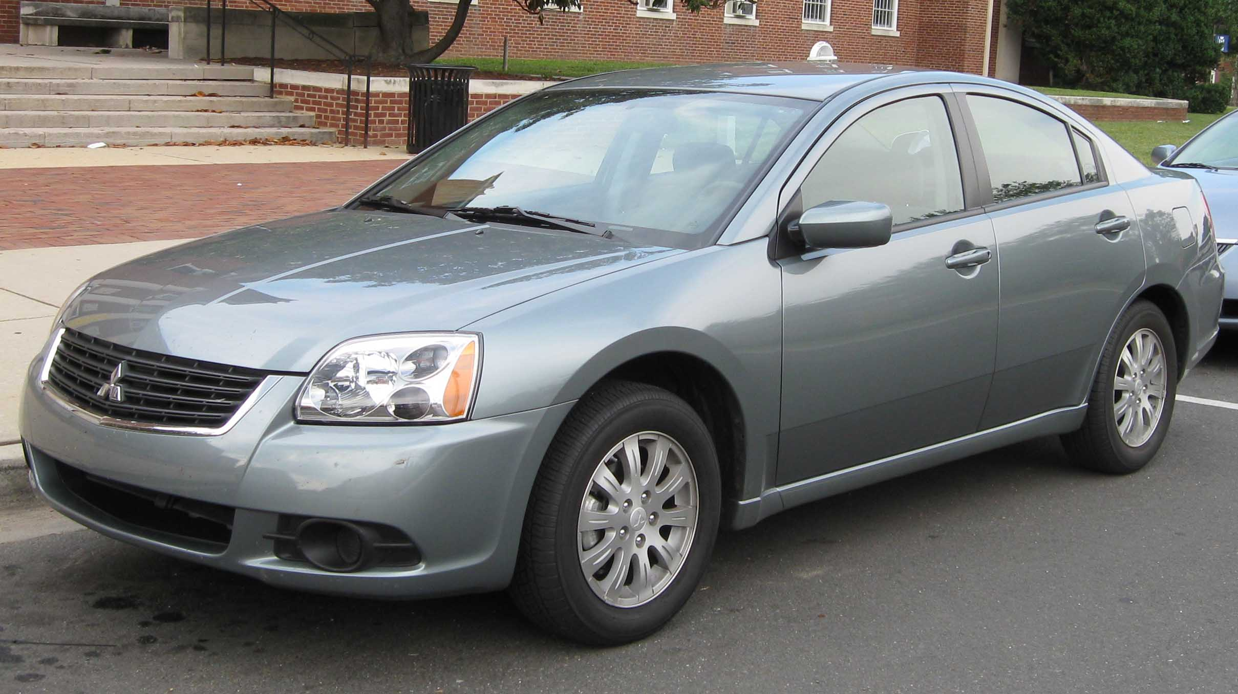 2009 Mitsubishi Galant photographed in College Park, Maryland, USA.